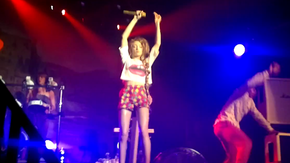 This is another picture I found on my phone of Nicola Roberts perform at G-A-Y. Again the quality is terrible so I wasn't going to upload them originally but I am going to use them regardless. I cropped out a lot of stuff like heads and fingers and stuff too.